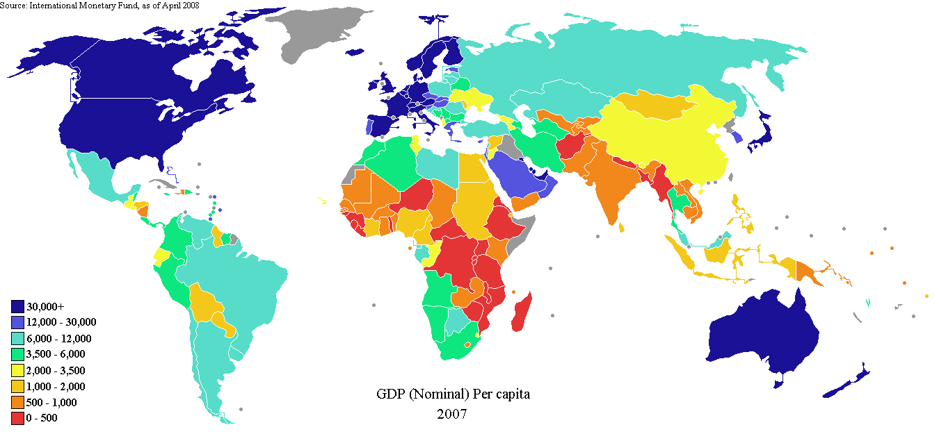 World map showing countries by nominal GDP per capita in 2007